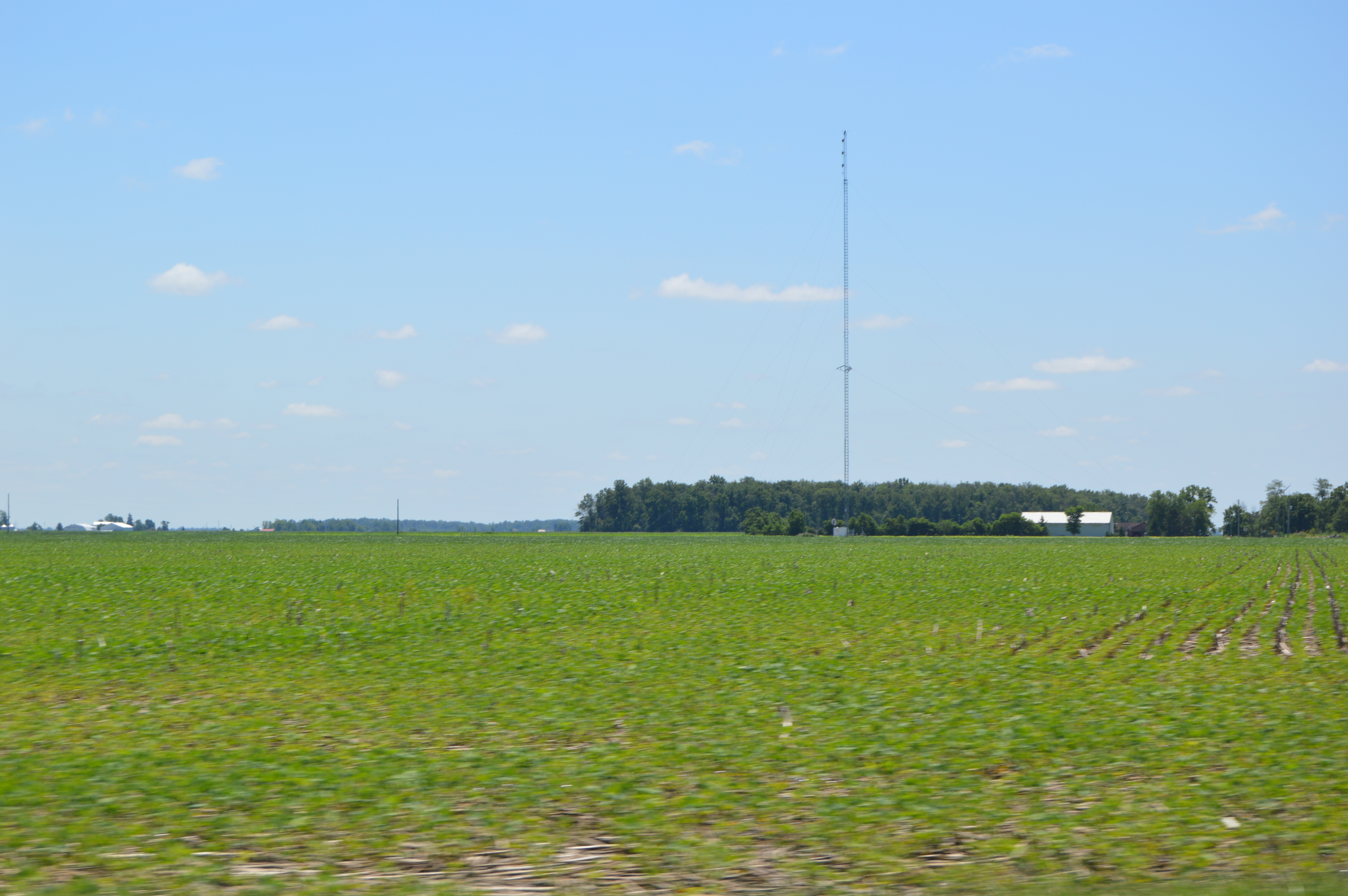 Looking southeast from U.S. Route 224 southwest of Kalida in Jackson Township, Putnam County, Ohio, United States.